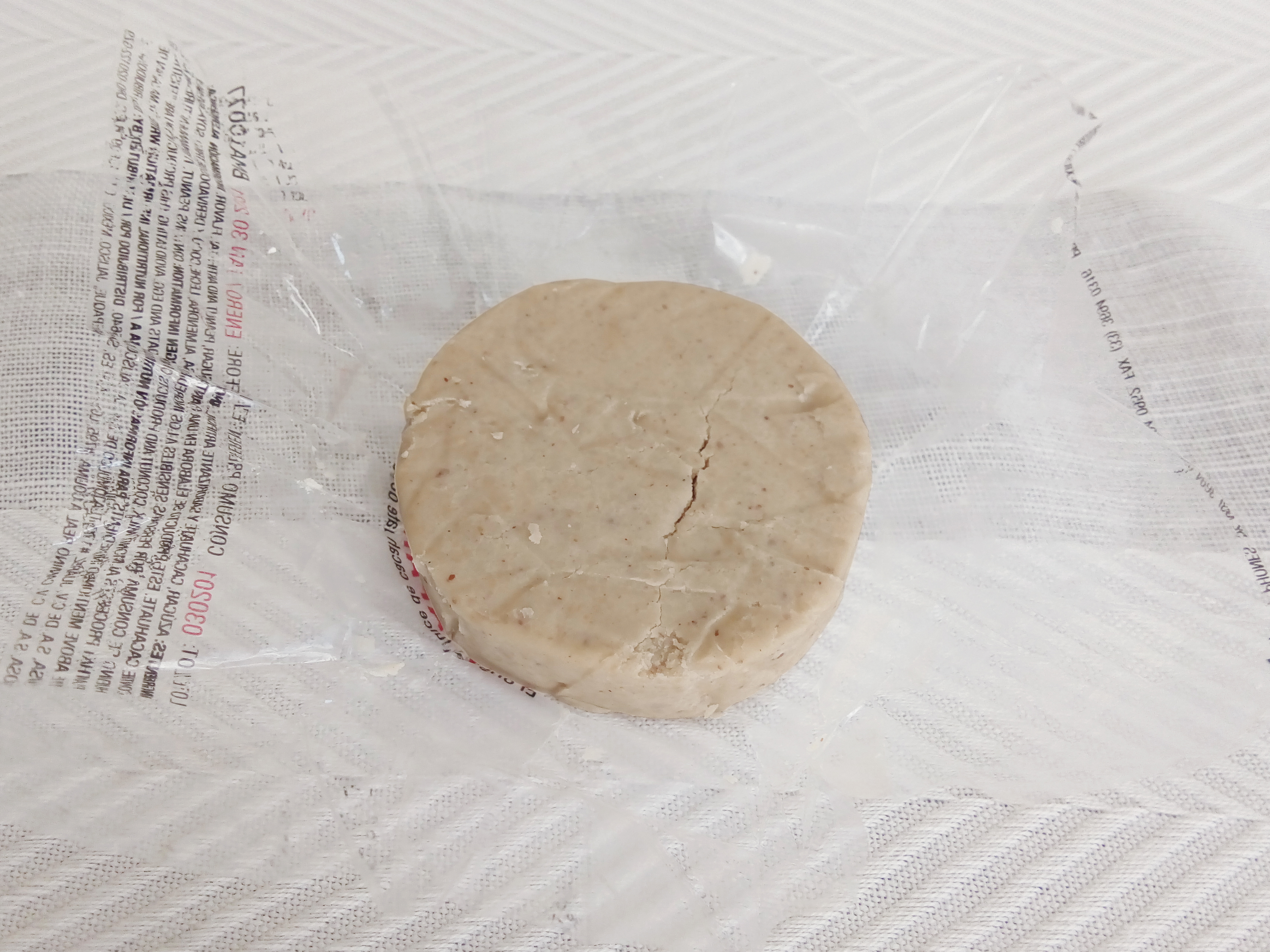 Mexican peanut marzipan.